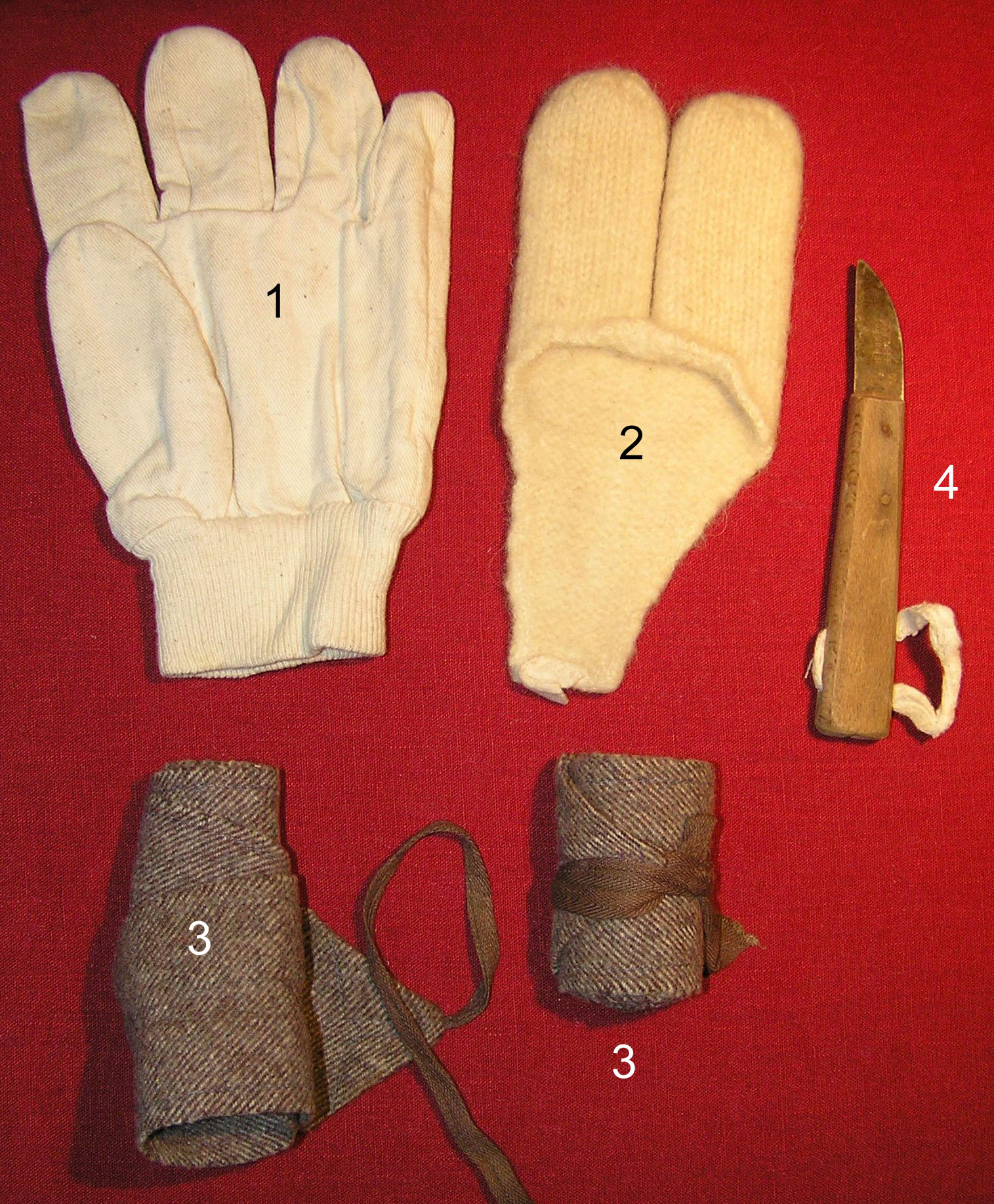 Gibbing tools as used on the Glückstadt lugger Saxnot circa 1966. 1: Glove to protect the left hand and to grip the herring. 2: Partial glove to protect the index and middle fingers of the right hand. 3: Wrist bandages to protect the wrist from chafing by the oilskins. 4: Gibbing knife with a holding strap for the ring and little fingers of the right hand.